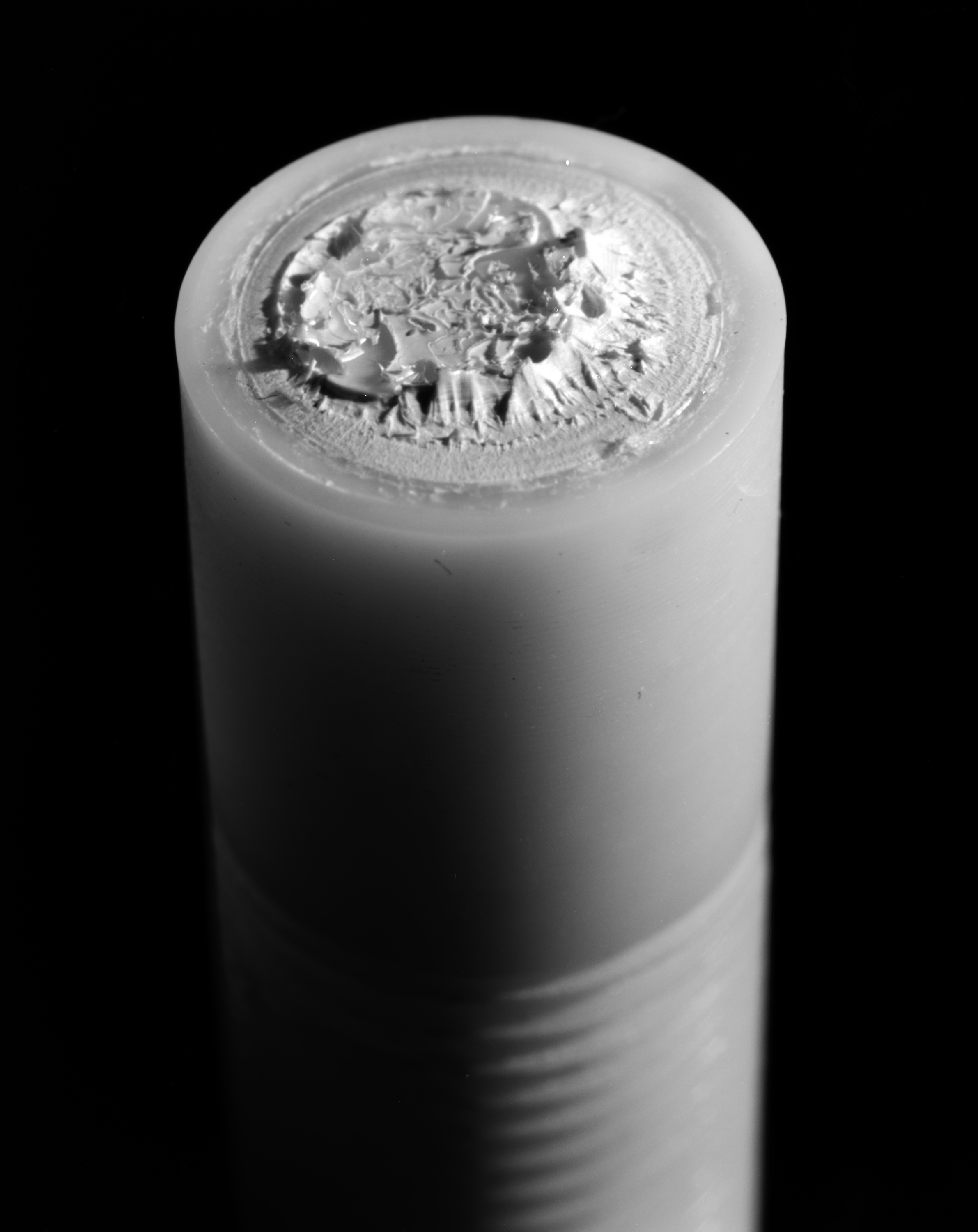 Plastic tensile specimen after fatigue test with fissure indication; the transition between fatigue fracture and fast fracture is well noticeable